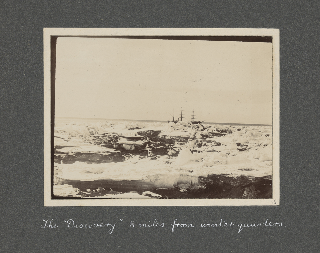 National Antarctic Expedition, 1901-1903 A cloth covered album containing 48 photographic prints relating to the National Antarctic Expedition between 1901 and 1903 when E. H. Shackleton was sent home. The album is inscribed by Shackleton "With kindest wishes from E. H. Shackleton to the Missis Dawson Lambton in Remembrance of the great share they took in helping the Expedition, June 1905." According to a caption in the album the Dawson Lambton's subscribed to the balloon that was taken and used. A few photographs illustrate the balloon and the view from it. There is some element of doubt about the accuracy of some of the captions and images. They may have been compiled in such a way as to provide a narrative, rather than an accurate record as depicted by each image. ALB0346; The Discovery 8 miles from winter quarters, plate 15